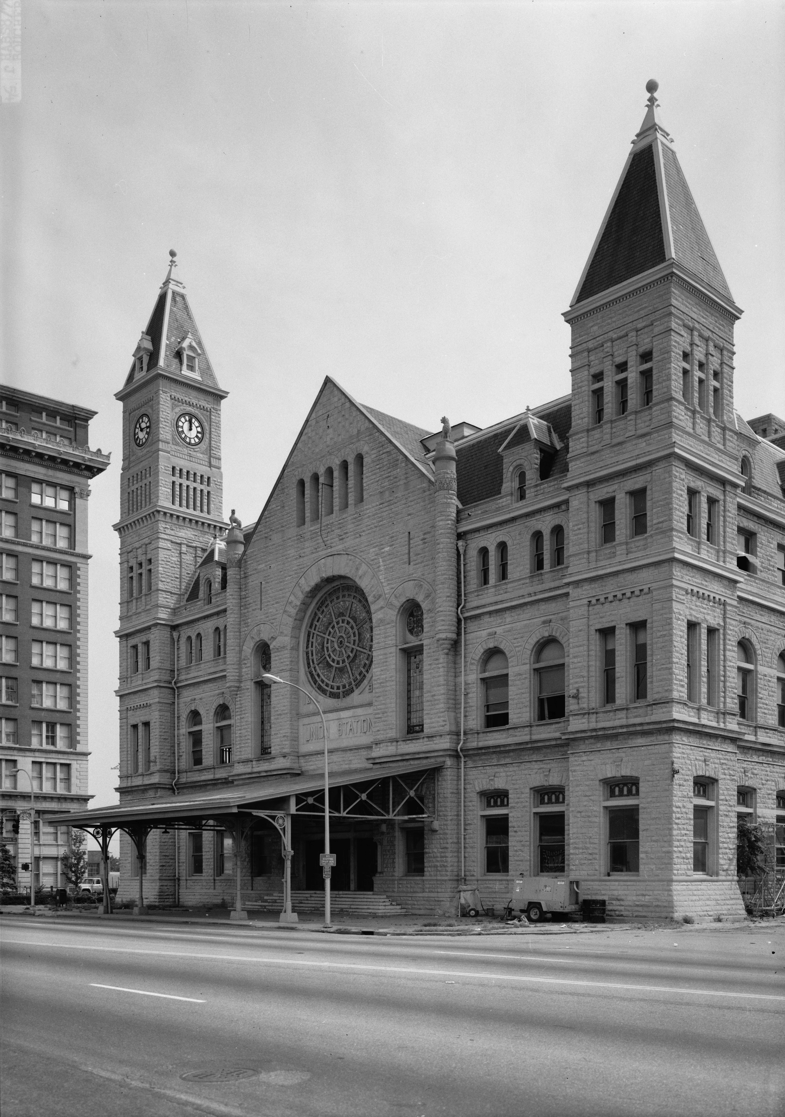 North (front) elevation of Union Station in Louisville, Kentucky, from northwest. Located at the confluence of major east, west, north, and south rail lines, Union Station is one of the largest and finest examples of late Richardsonian Romanesque architecture in Kentucky. Constructed in 1891.